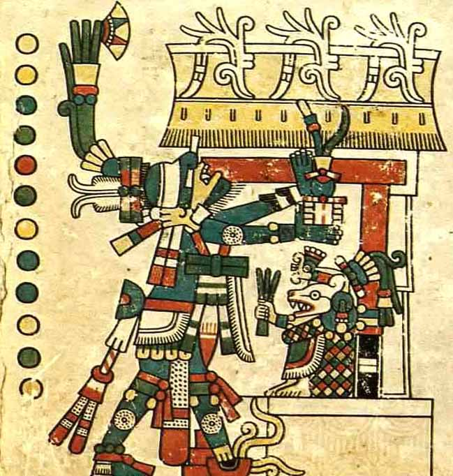 A drawing of Blue Tezcatlipoca, one of the deities described in the Codex Fejérváry-Mayer